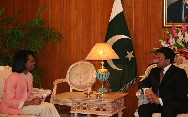 Secretary Rice meets with Pakistani President Pervez Musharraf at the Presidential Palace